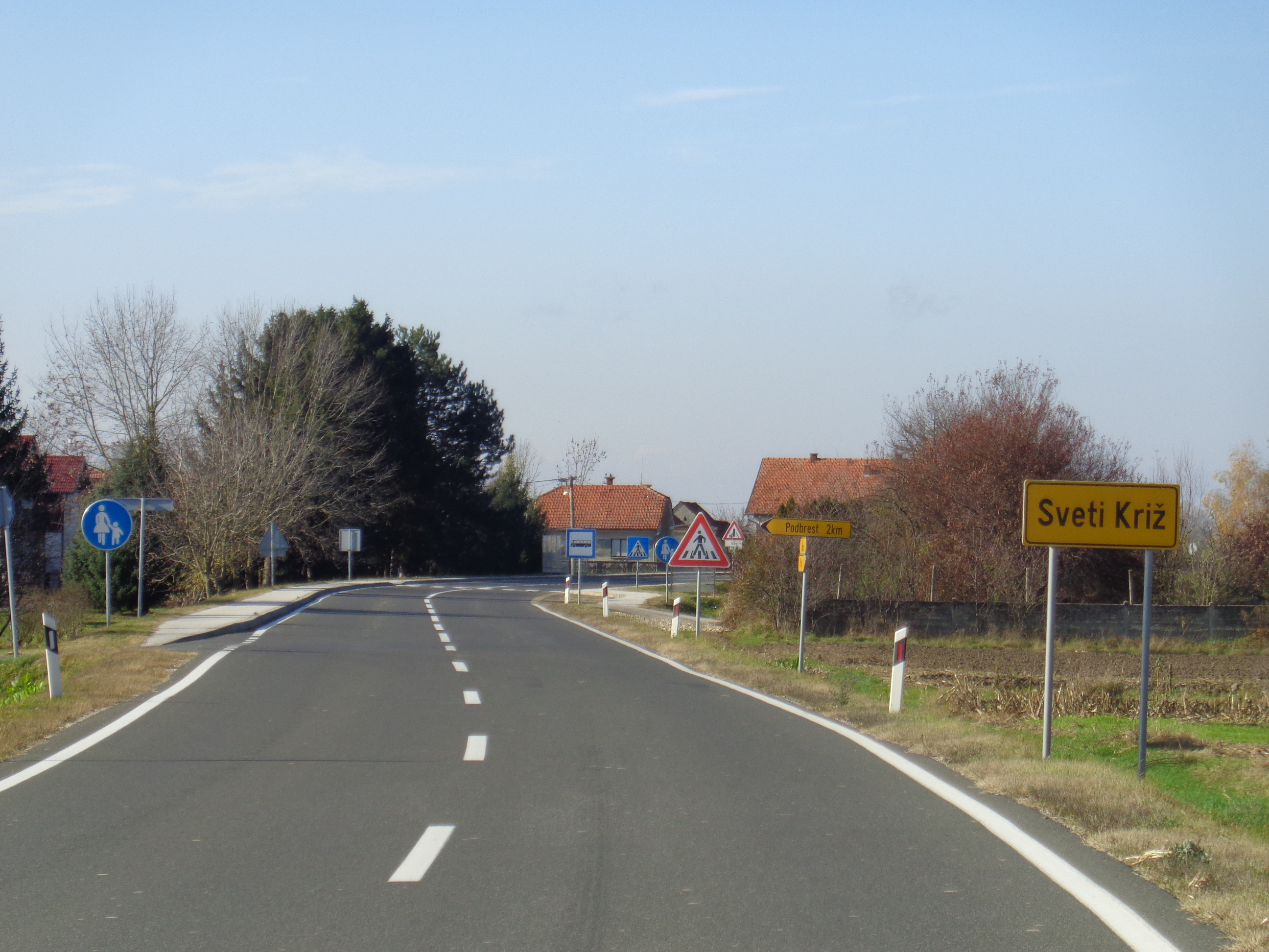 Sveti Križ (Međimurje County, Croatia) - village entrance